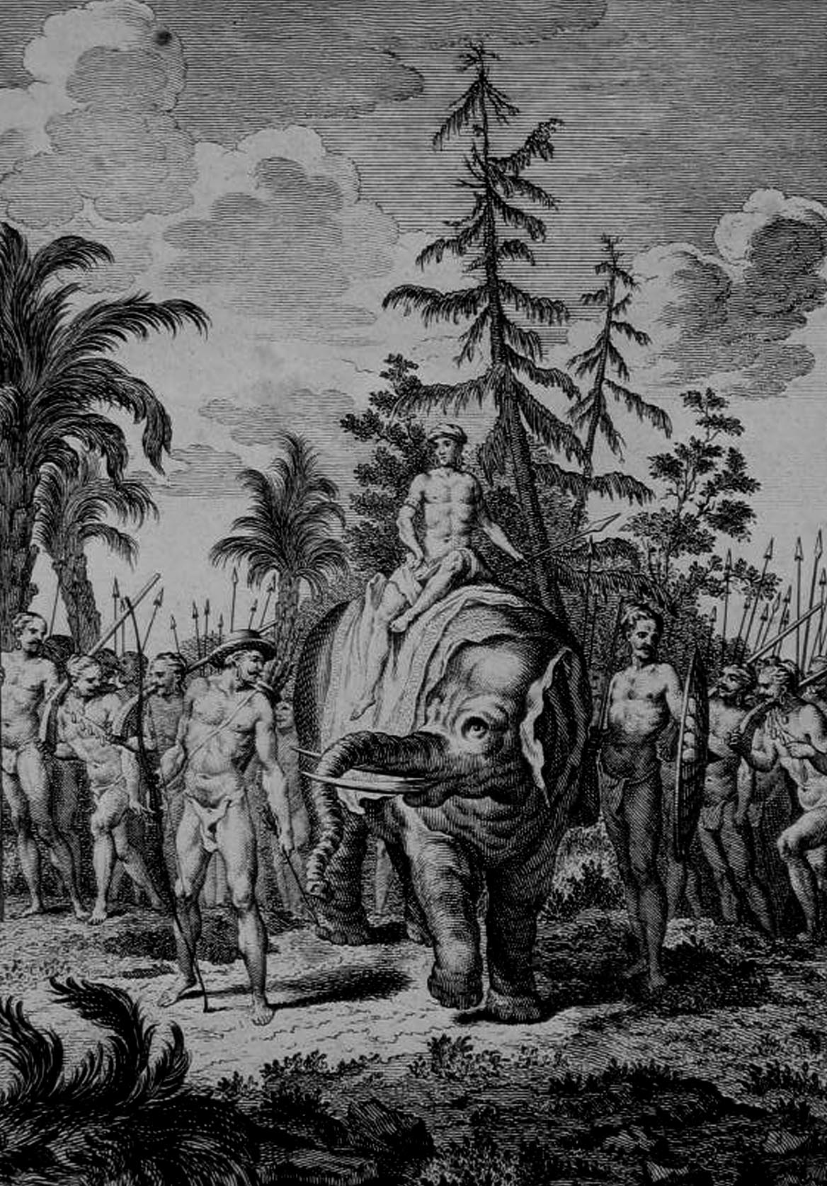 The King of Cochin on his elephant, accompanied by his Nairs from Histoire générale des Voyages